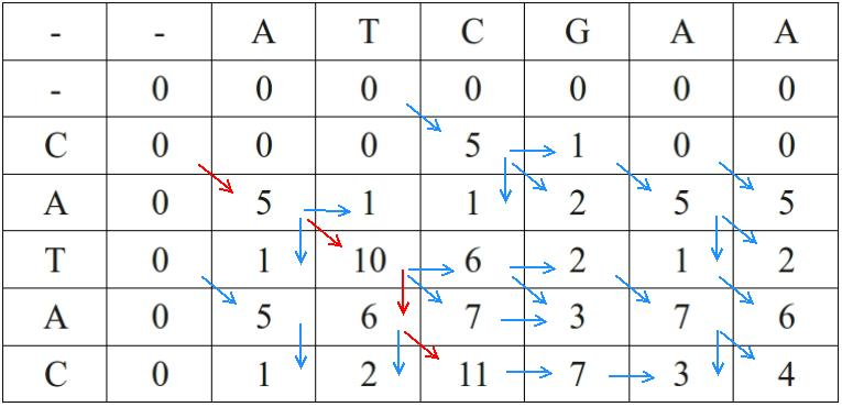 An example of Smith-Waterman algorithm. Arrows show the algorithm's path through the matrix. Red arrows show the final best local alignment.